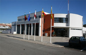 AHBVPA-Quartel05